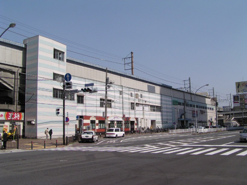 West Exit of Shin-Sugita Station